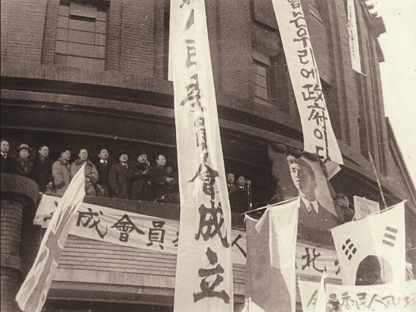 Celebrating the founding of the interim North Korean People's Committee : 1946.2.8.